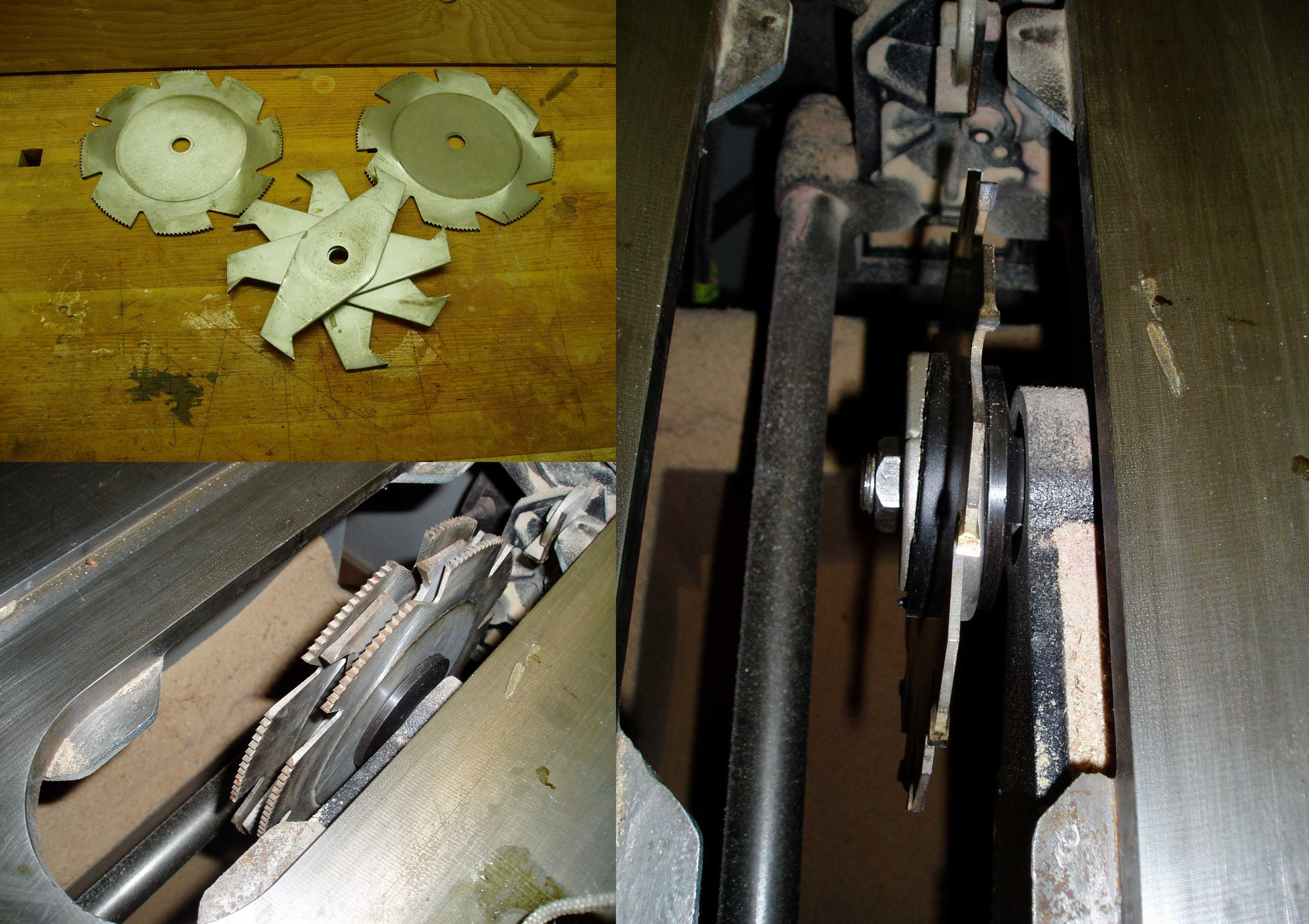 Pictures of dado sets taken by Luigi Zanasi on my workbench and table saw in September 2005 and assembled using Irfanview. Top left: disassembled stacked dado set showing blades and chippers; bottom left: stacked dado set in table saw; right: wobble dado set in table saw.